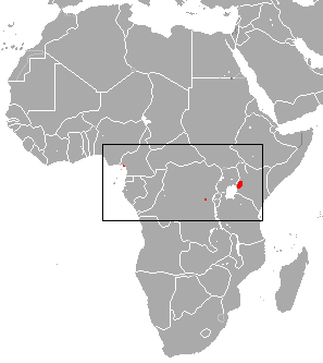 Greater Roundleaf Bat (Hipposideros camerunensis) range